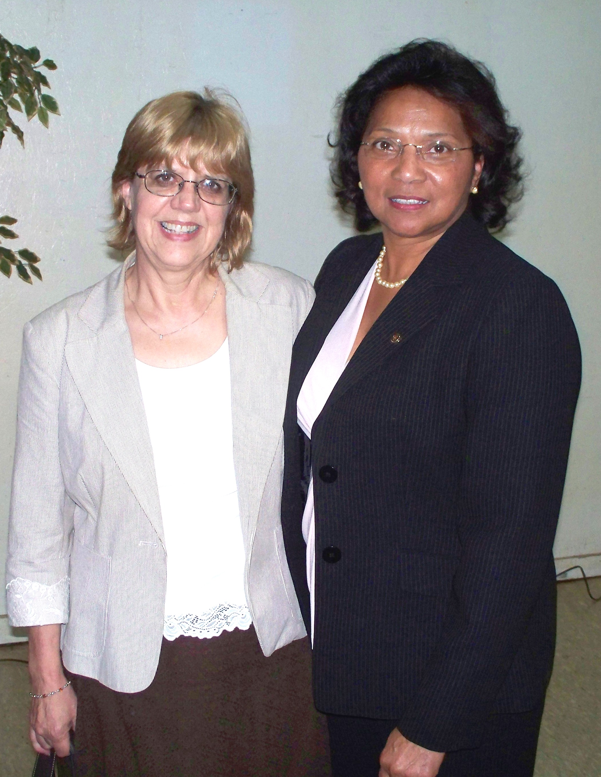 Tangipahoa Parish School Board Member Ann Alexander Smith (right) with Southeastern Louisiana University instructor Dr Birgitta Ramsey on 2011 May 13.